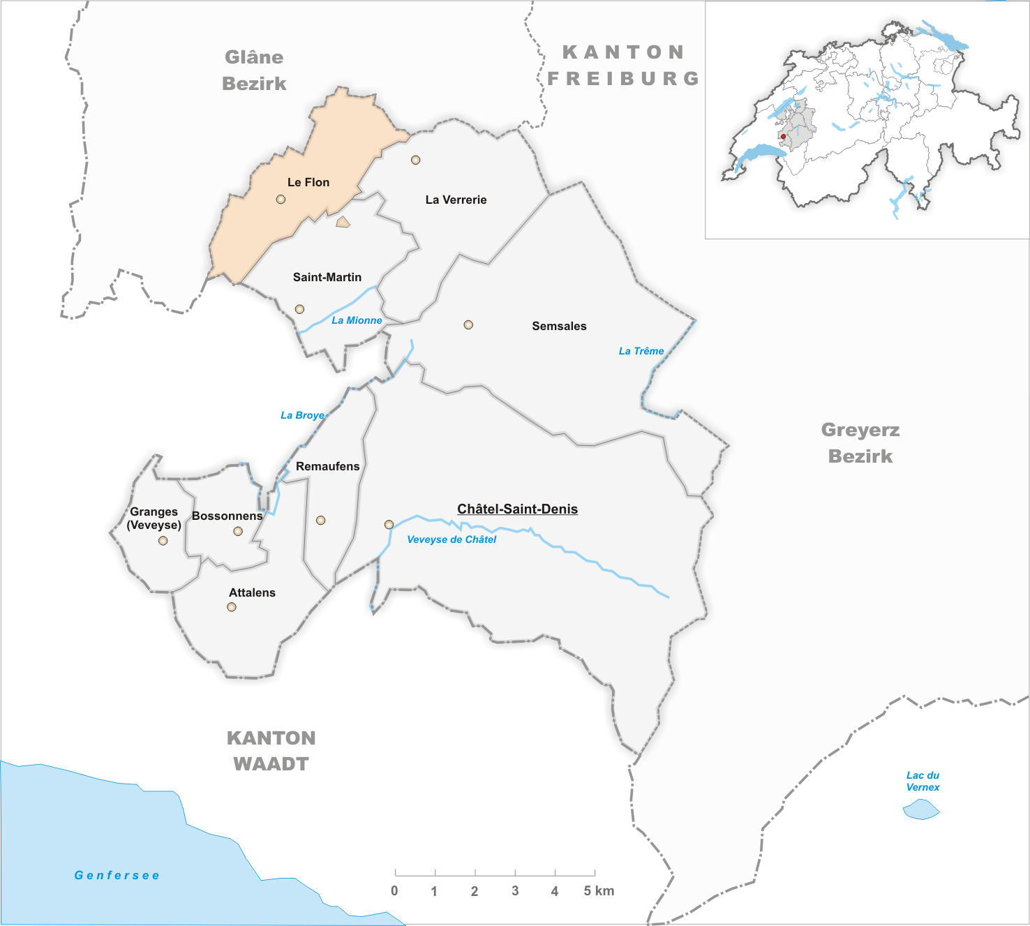 Municipality Le Flon